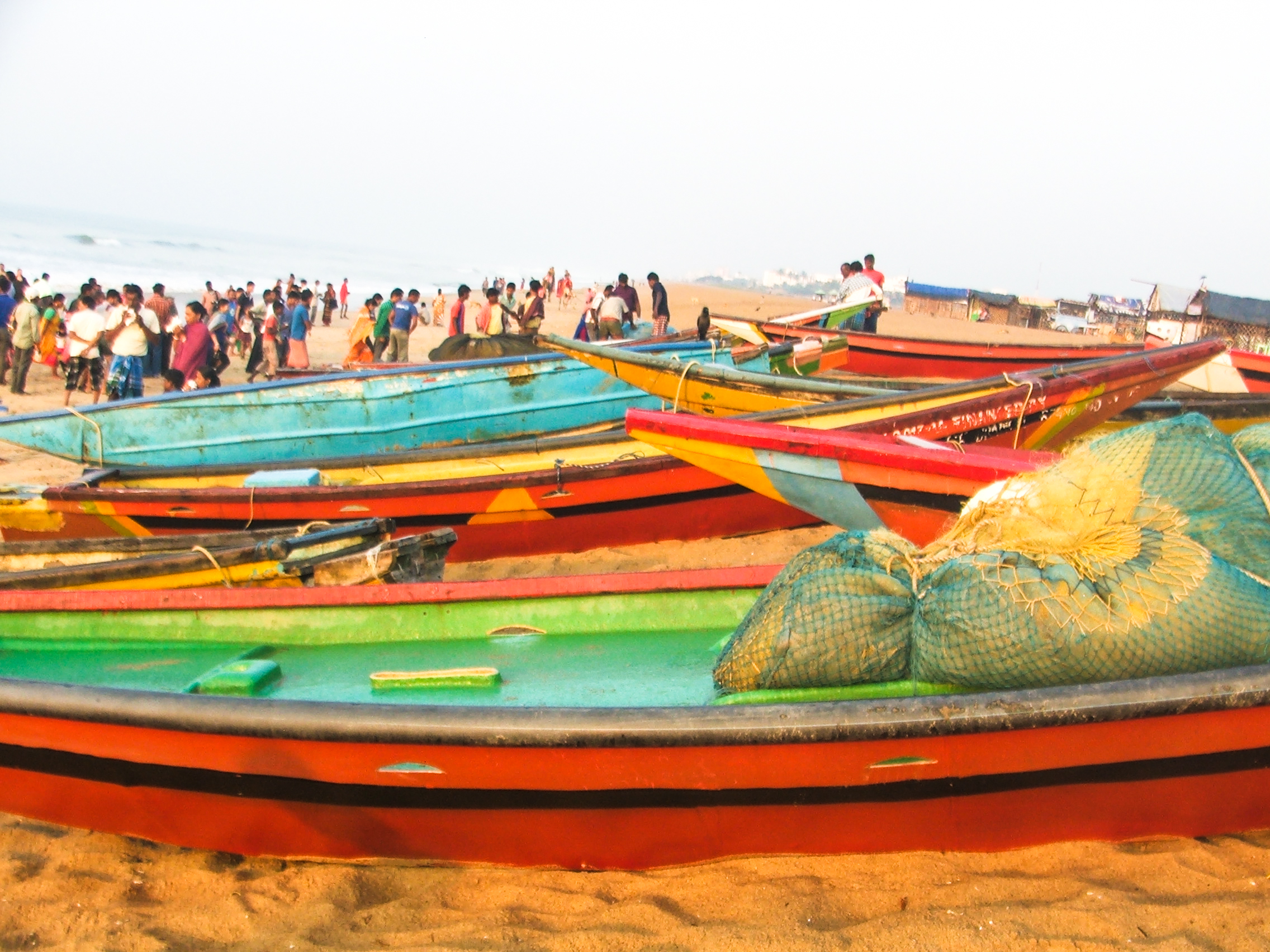 As the fishermen return from their morning catch, early morning beach walkers clamour to buy fresh fish amidst the colourful hulls of the beached boats